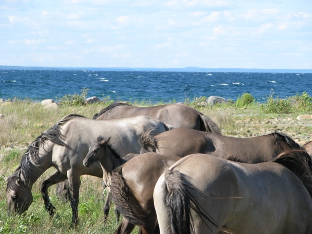 A nice variety of the wild coat colour which is know by the following terms: Rato (Portuguese), Grulla (Spanish), mouse-dun, mouse-grey, blue-dun, dosinus (donkey-coloured), cinerus (ash-coloured), just to name a few. Pictured here are Sorraia and Sorraia Mustang horses which exhibit well the homogenous phenotype typical of the wild tarpan type horses. Ravenseyrie Sorraia Mustang Preserve, Manitoulin Island, Ontario, Canada.